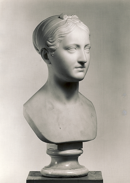 Bust of Vittoria Caldoni